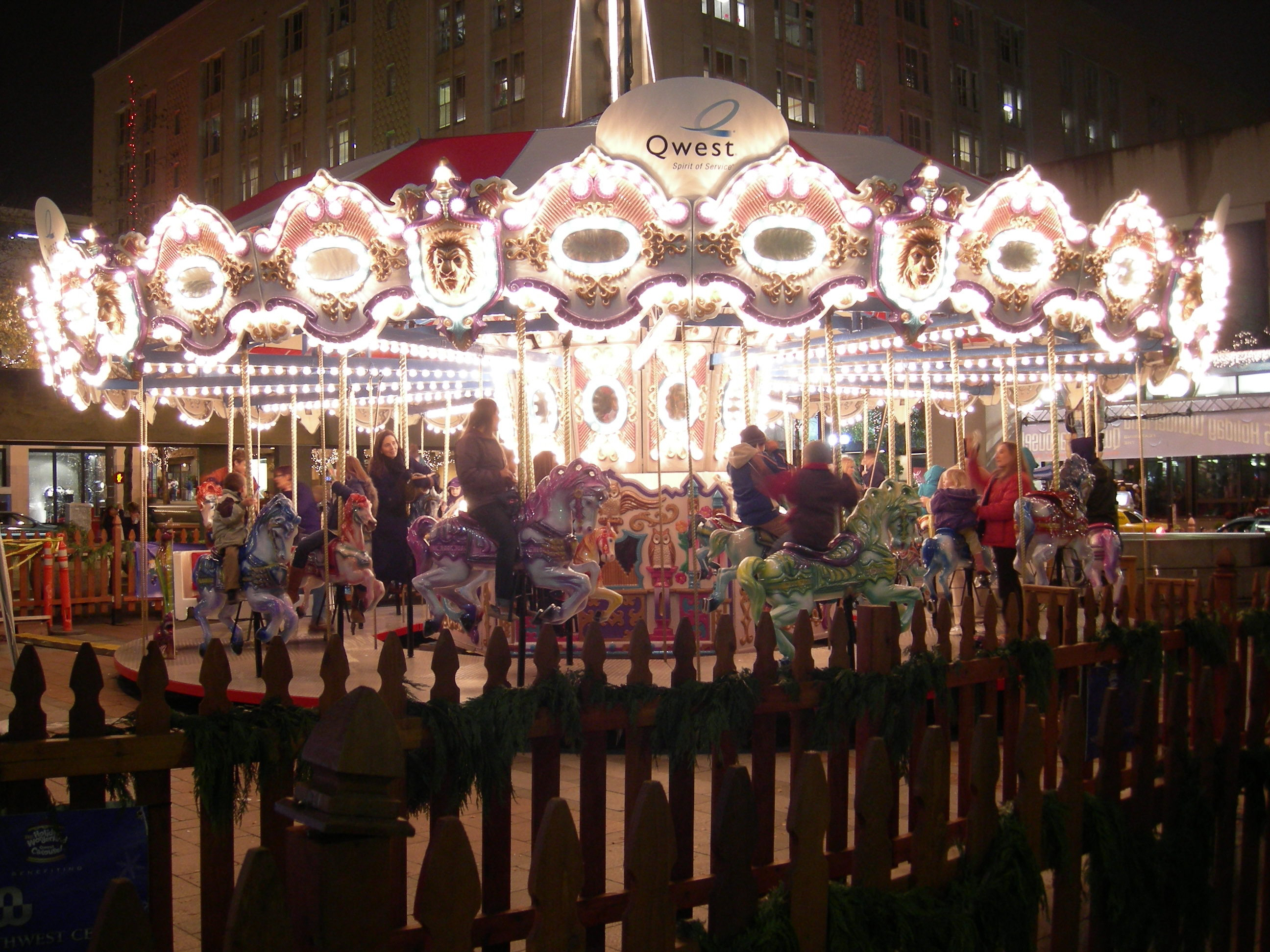 Carousel at Christmas season, Westlake Mall, Seattle, Washington. This has been colormapped lighter than the raw image.